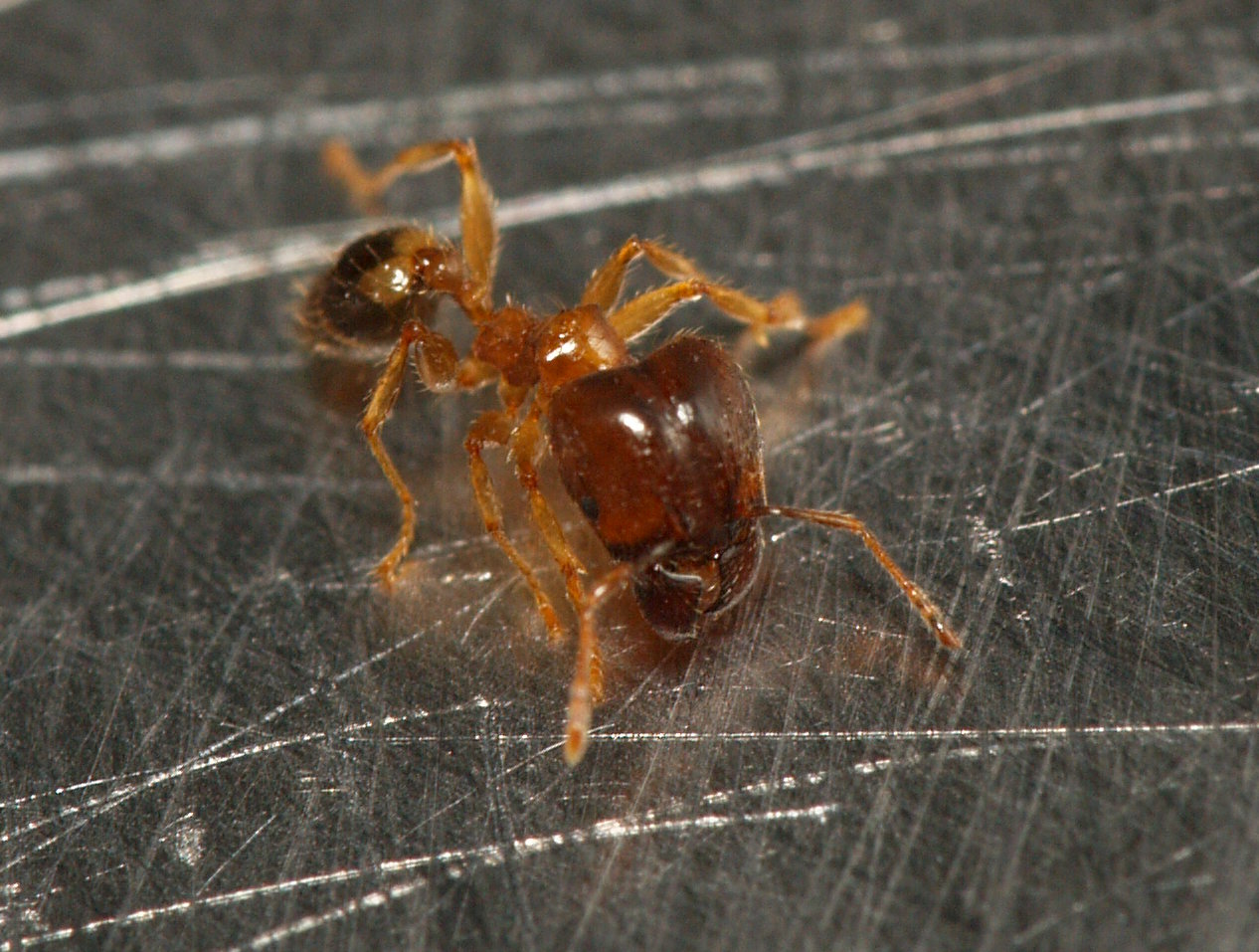 Major worker of Pheidole megacephala in a flat in Kowloon, Hong Kong.